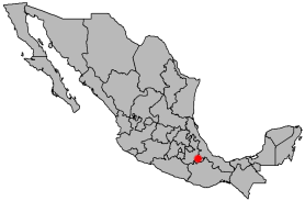 Locator map of Tehuacán, Puebla state.